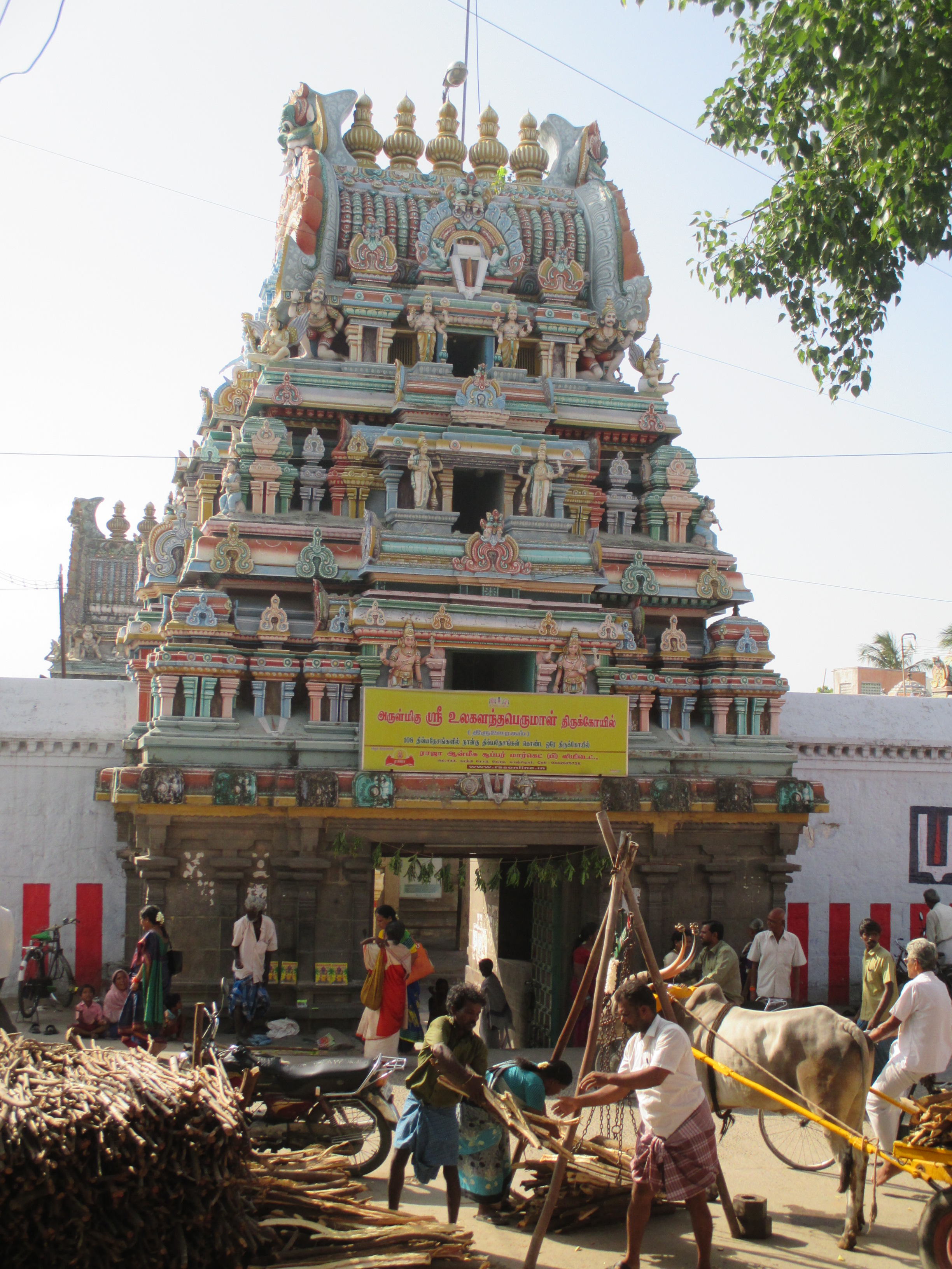 Ulagalantha Perumal